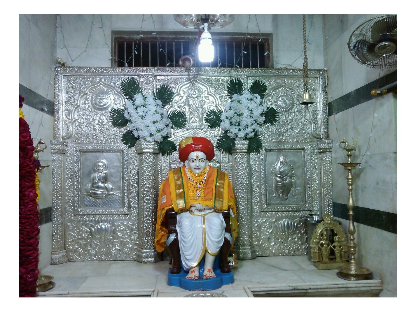 श्रीगुरू सिद्धपादाचार्य स्वामी उर्फ देव मामलेदार